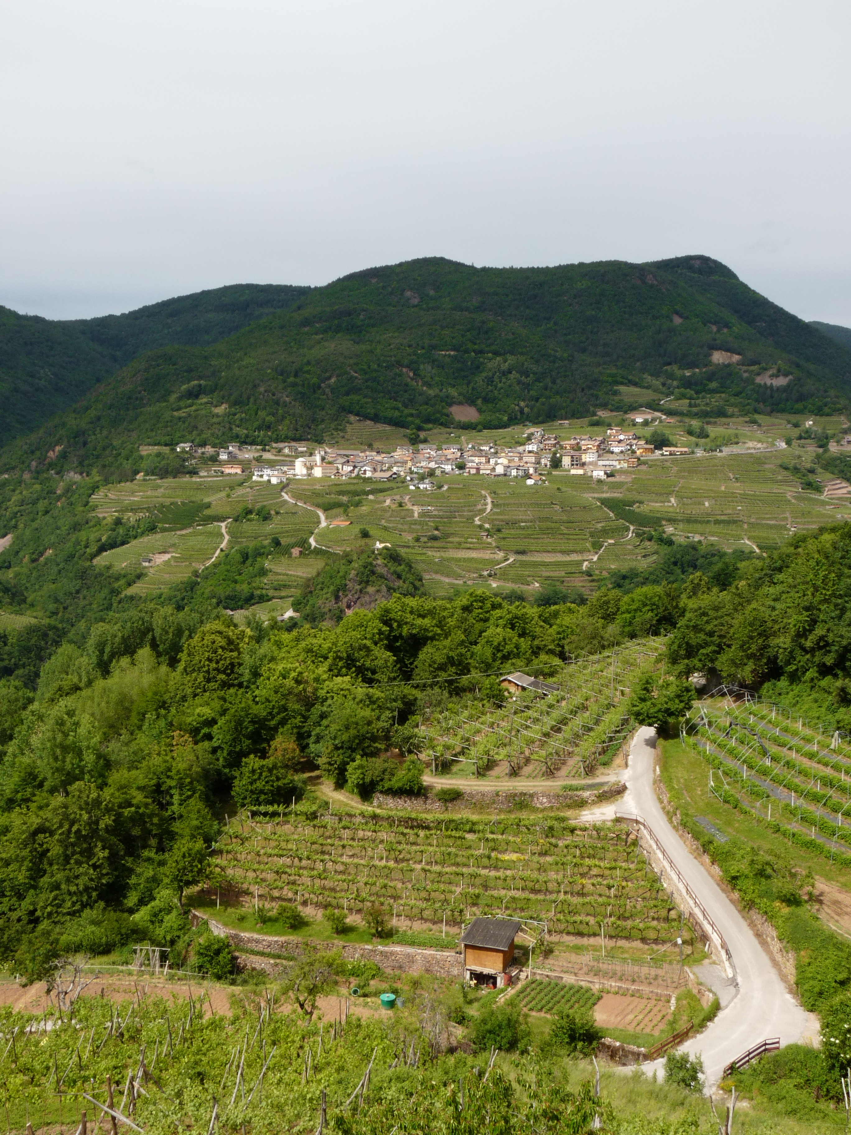 Lisignago (Italy): Lisignago viewed from Albiano